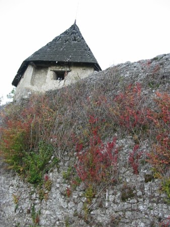 Castle in Bosanska Kostajnica from . Uploaded by Kseferovic.